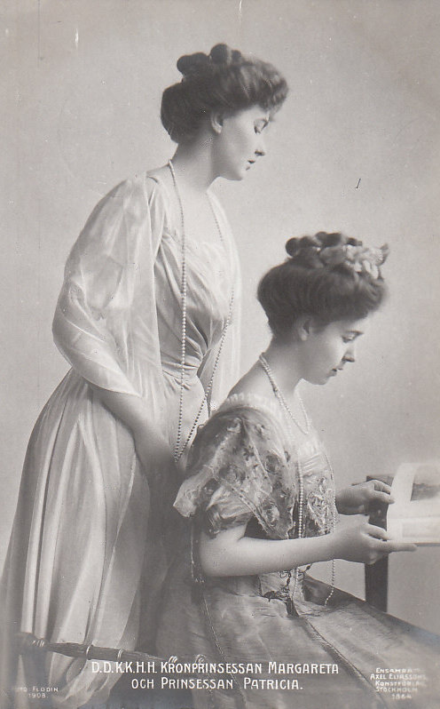 Princess Patricia of Connaught with her elder sister Margaret, Crown Princess of Sweden